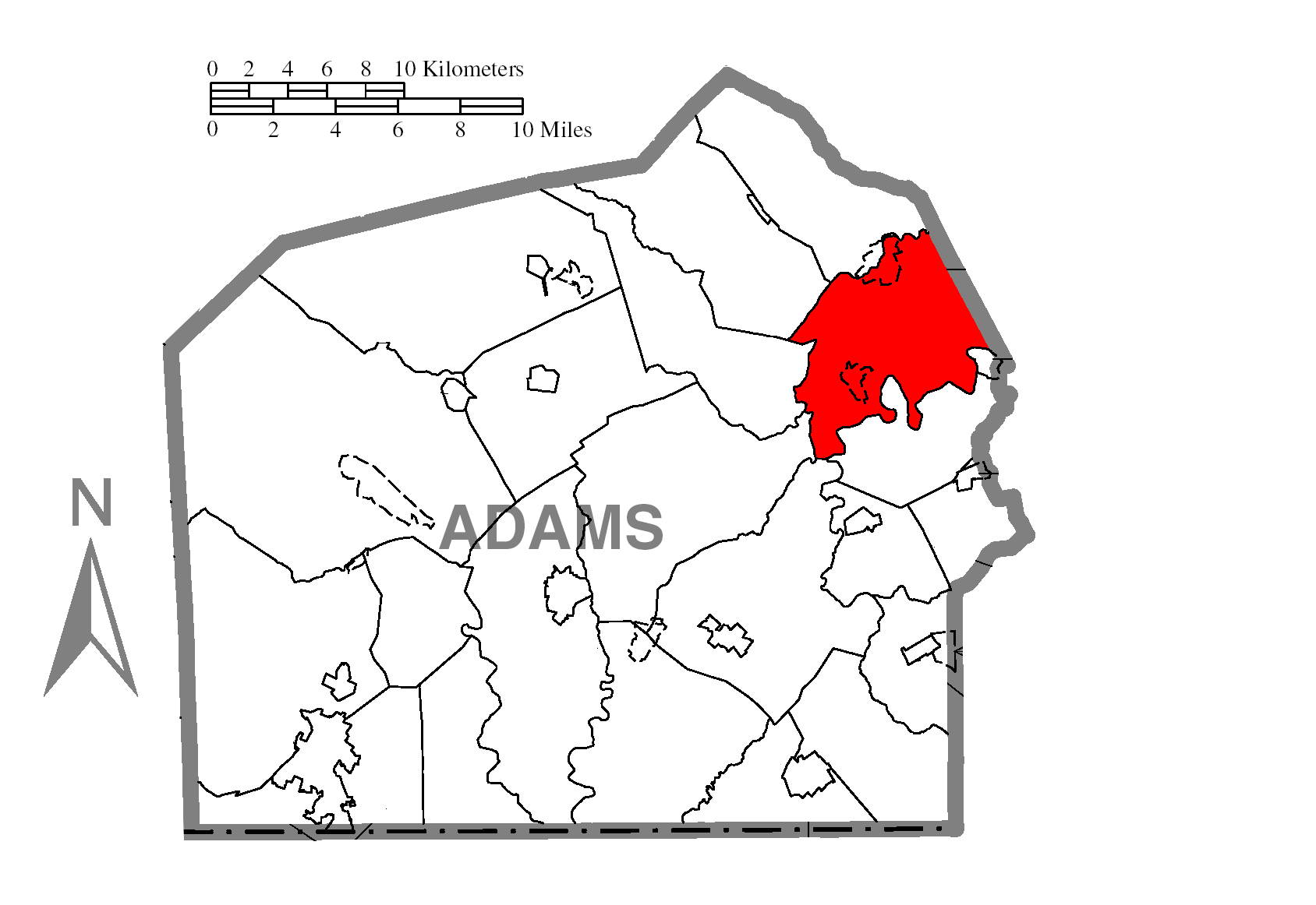 A map of Adams County showing Reading Township, Pennsylvania (alternate) highlighted on the map.